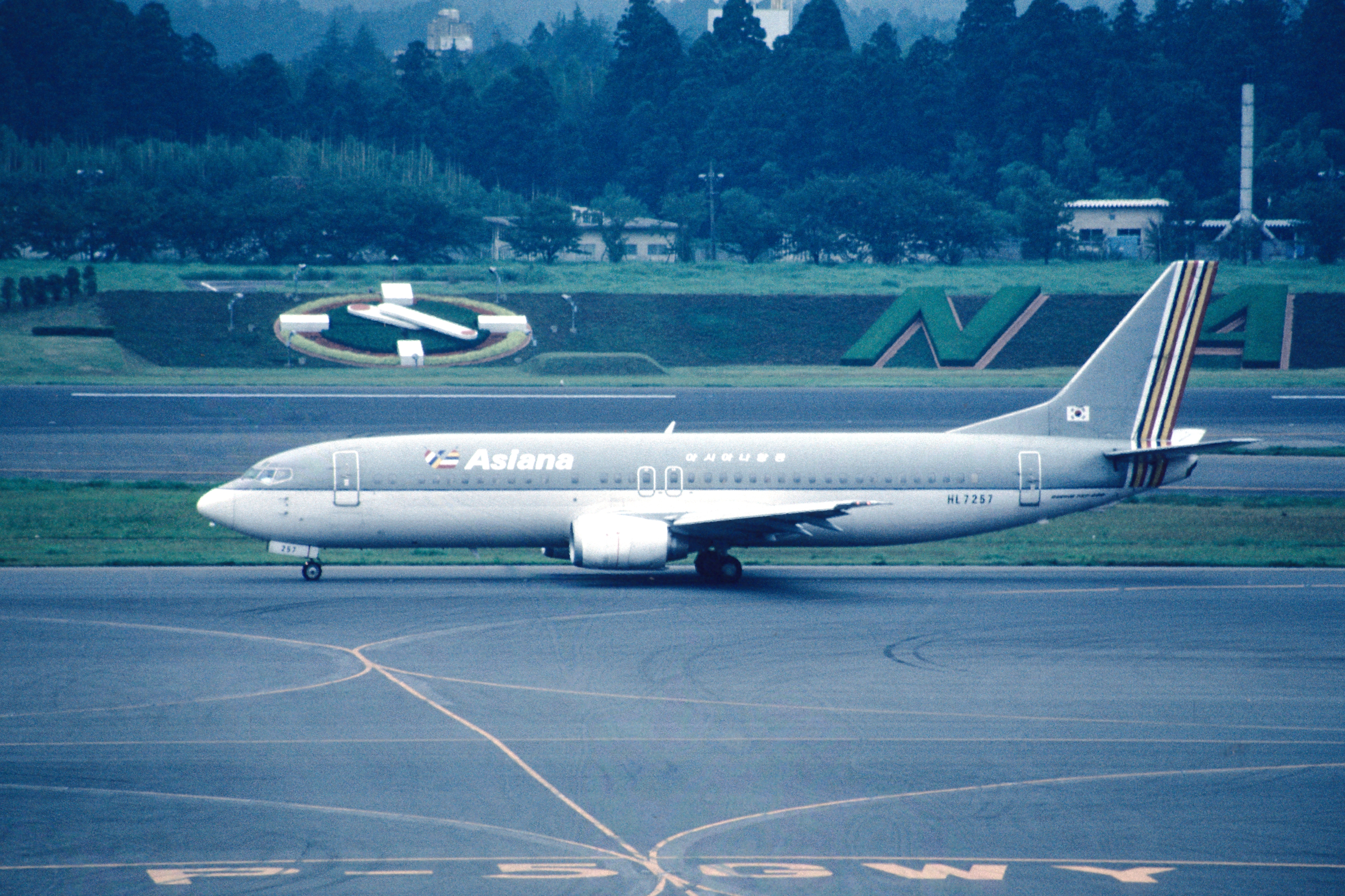 Asiana Airlines Boeing 737-400 (HL7257) at Narita International Airport